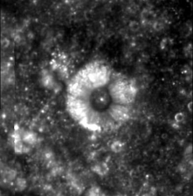 Clementine image